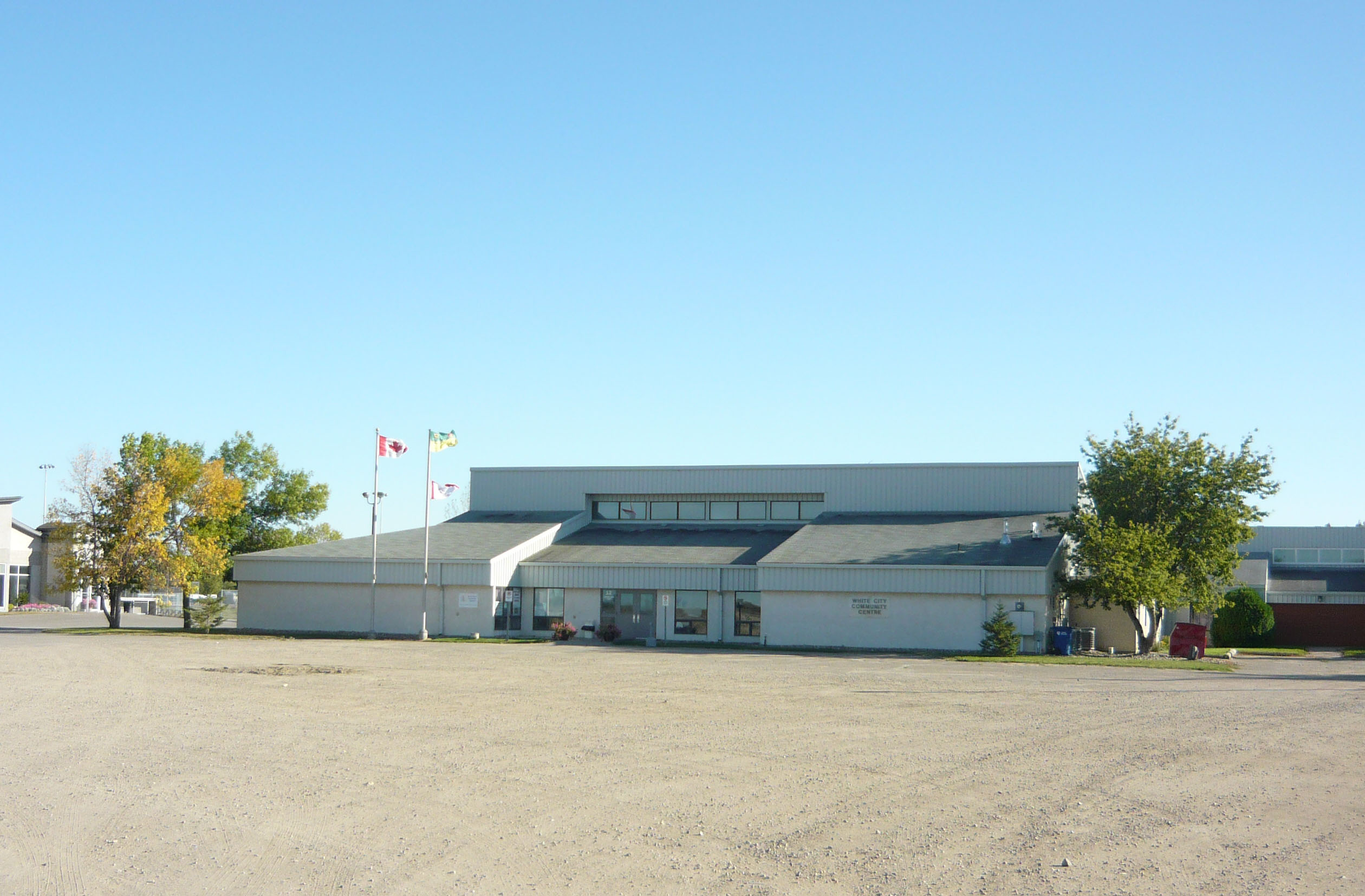 Community Centre, 12 Ramm Avenue, White City, Saskatchewan, Canada.